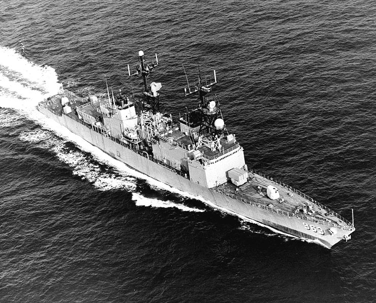 The U.S. Navy destroyer USS Spruance (DD-963) running builders' trials in the Gulf of Mexico, in February 1975.